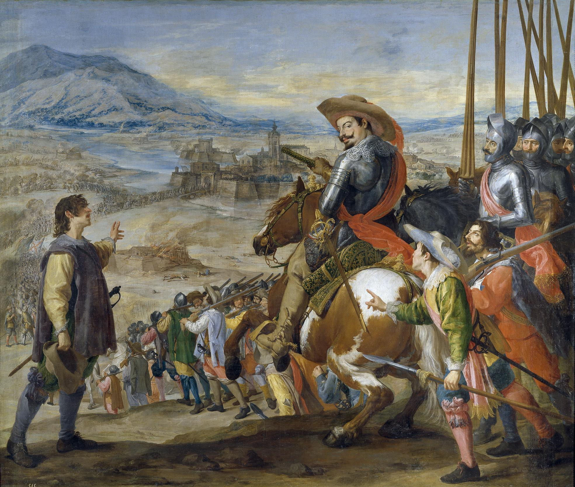 The Spanish capture of Breisach by the Duke of Feria in 1633